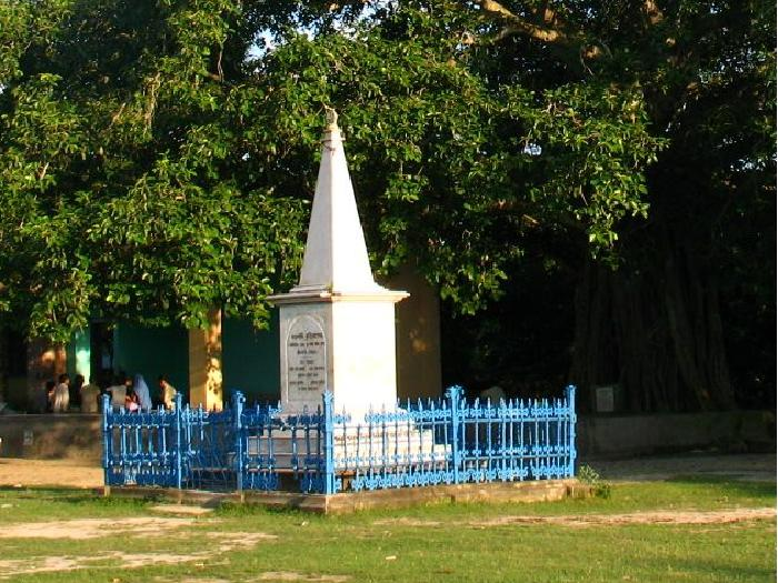 Phulia.